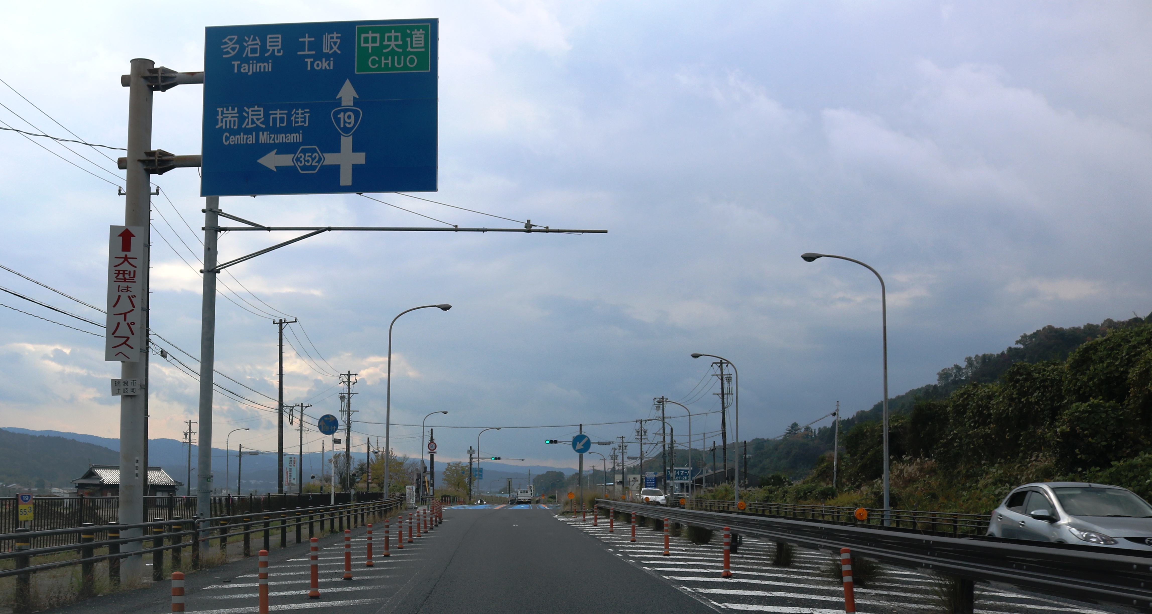 Route 19 and Gifu Prefectural Road Route 352 (Onishi-Mizunami Line) in Mizunami, Gifu prefecture, Japan.